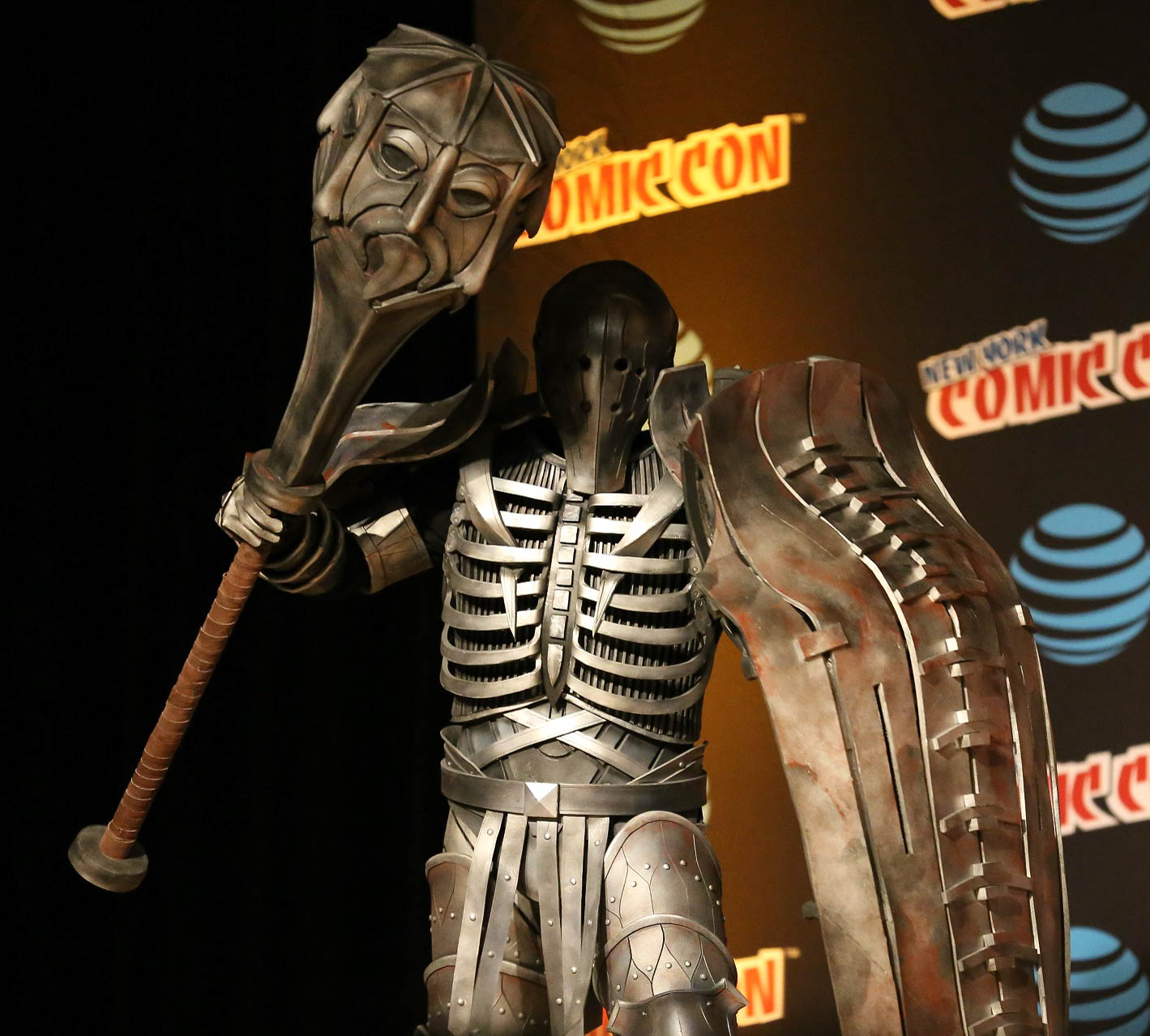 Julian Keller, aka PhazonJuke, cosplaying as Imlerith (from The Witcher 3: The Wild Hunt) in the Eastern Championships of Cosplay contest at the 2016 New York Comic Con — second-place winner in the armor category.